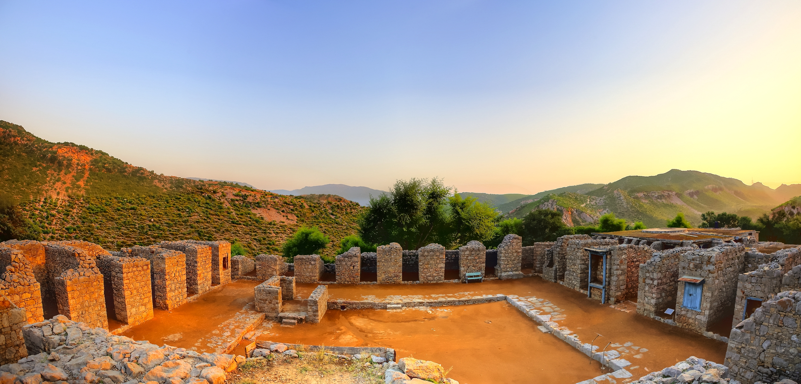 Picture shows the bathing pond (now filled with clay), living quarters and stupa remains (at the right corner) This is a photo of a monument in Pakistan identified as the KPK-14